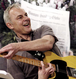 Uffe Steen